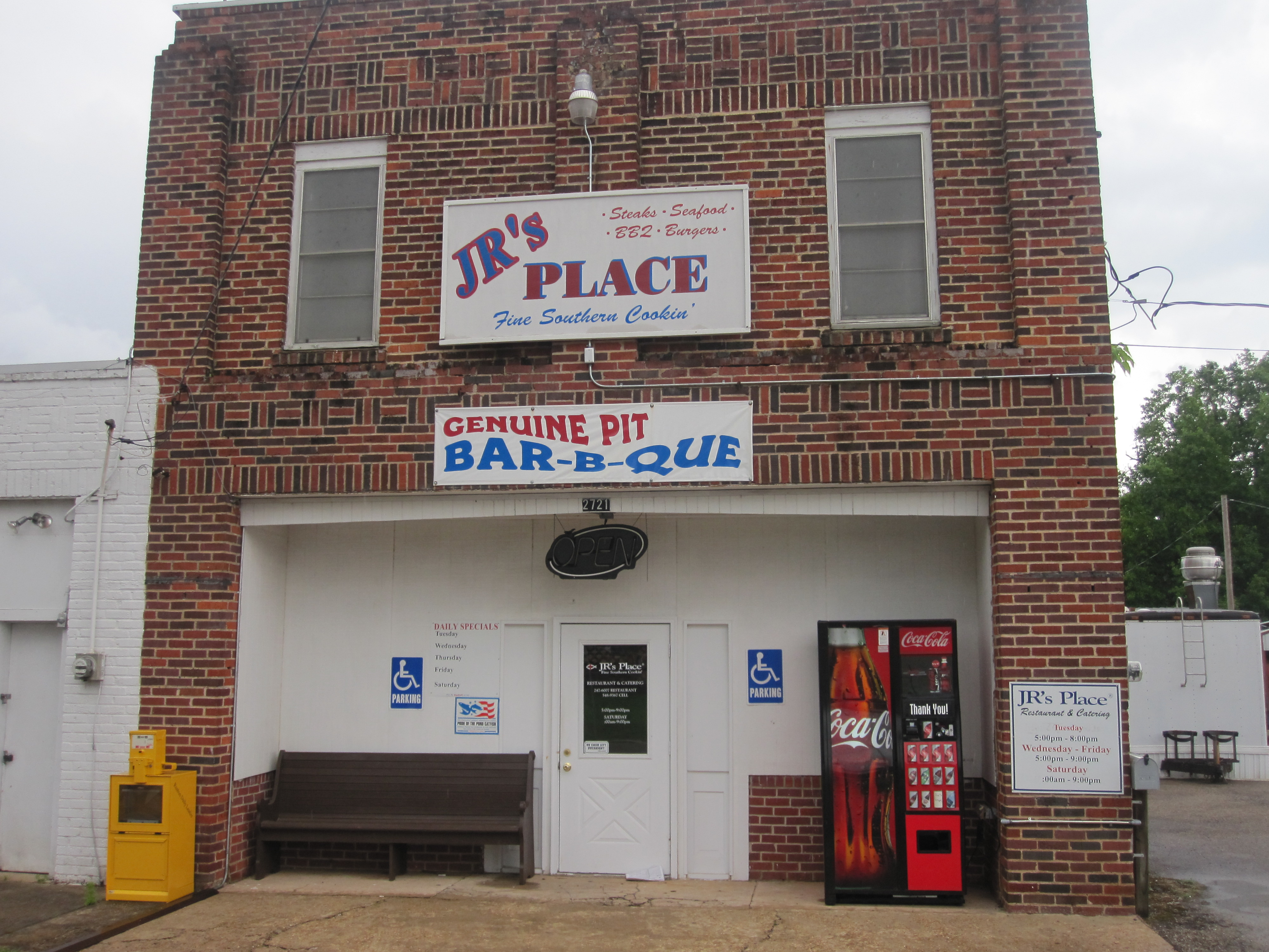 J.R.'s Place BBQ restaurant in Simsboro, Louisiana I took photo with Canon camera.